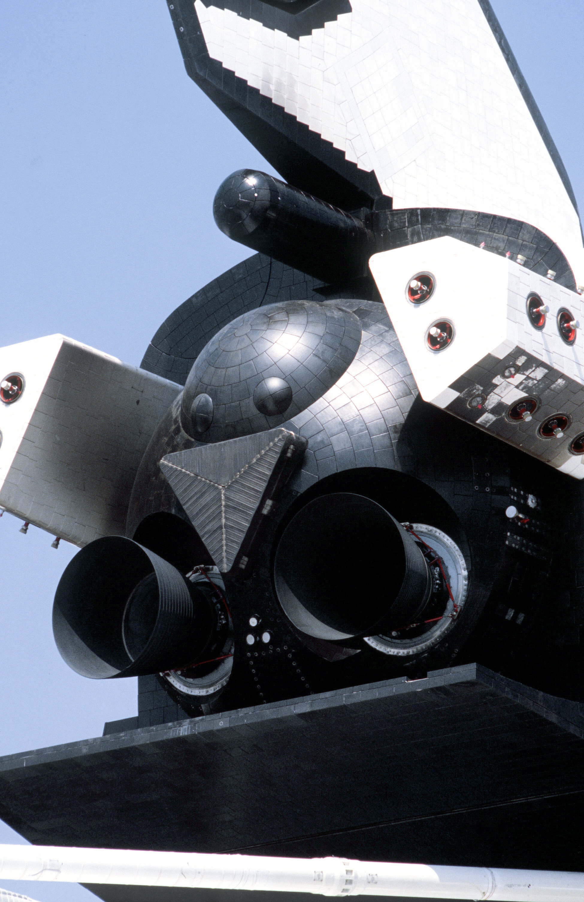 A partial rear view of the Soviet space shuttle Buran, on display at the 38th Paris International Air and Space at Le Bourget Airfield.